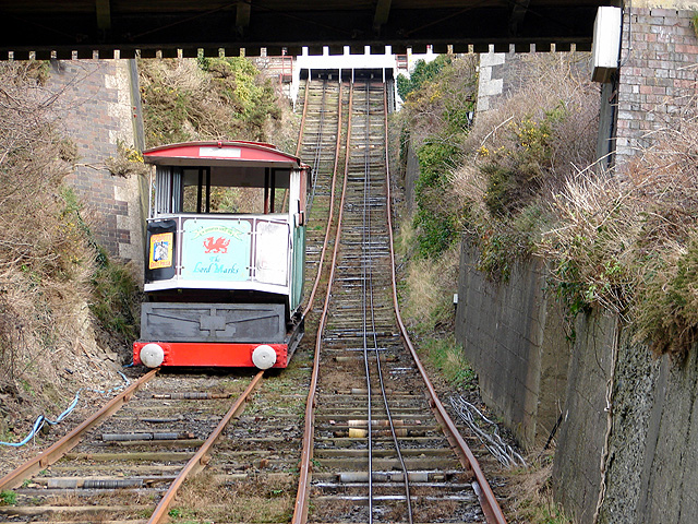 Aberystwyth Cliff Railway - 4 Near the passing point with an empty descending car.